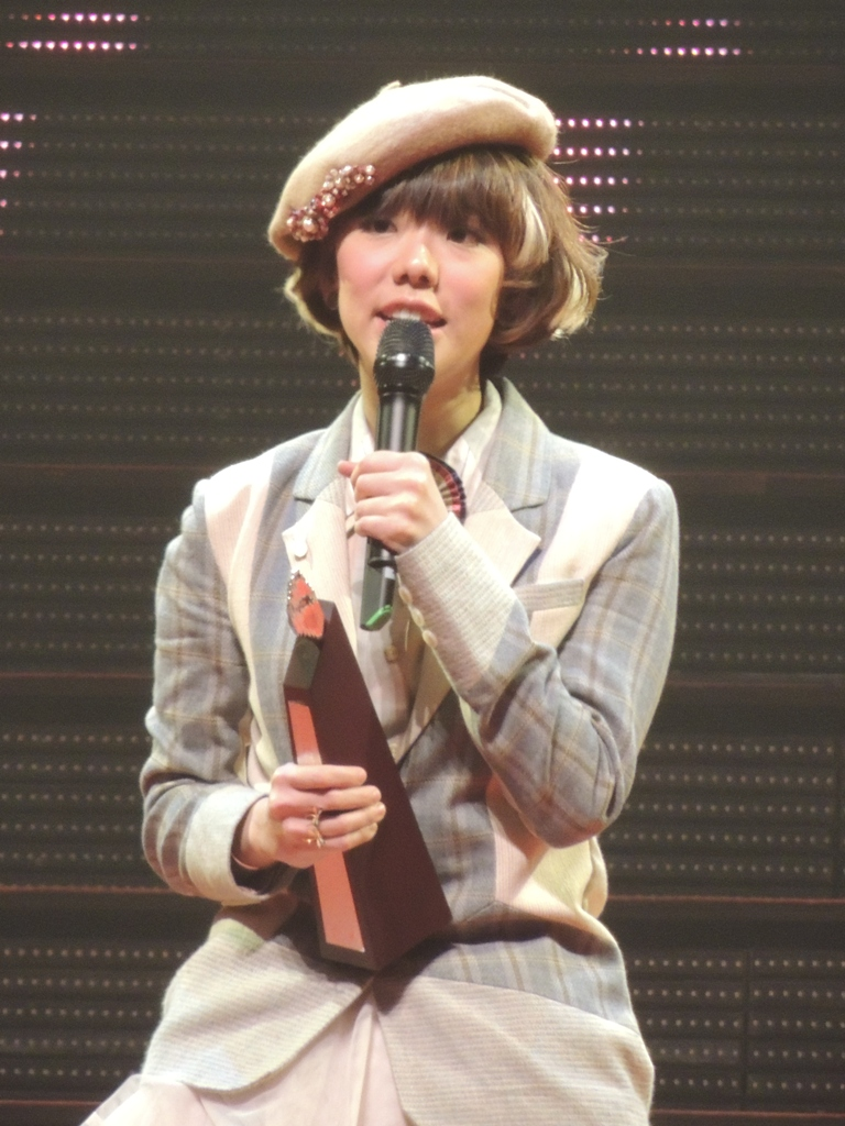 Ultimate Song Chart Awards 2013